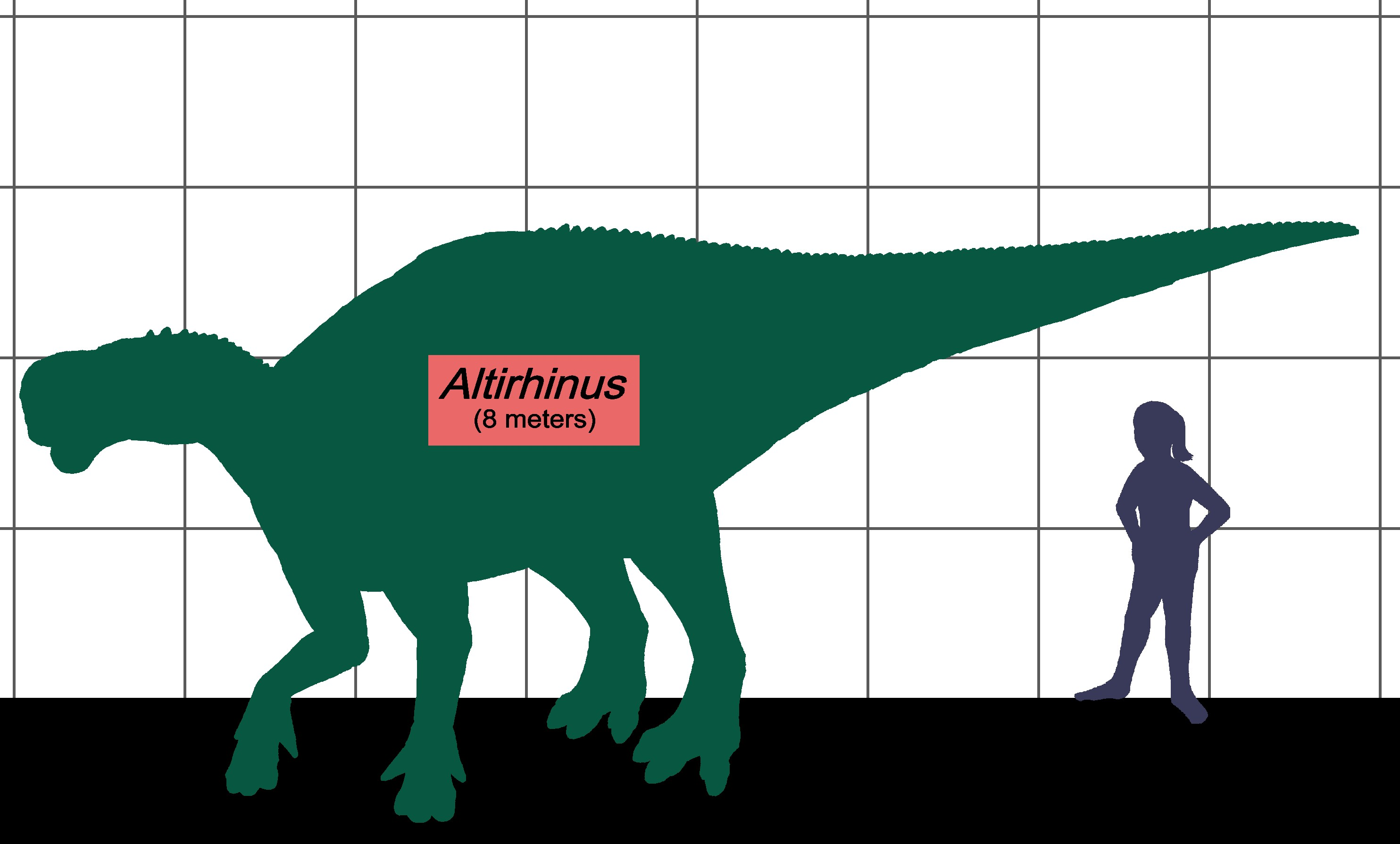 Size comparison between the ornithopod dinosaur Altirhinus.